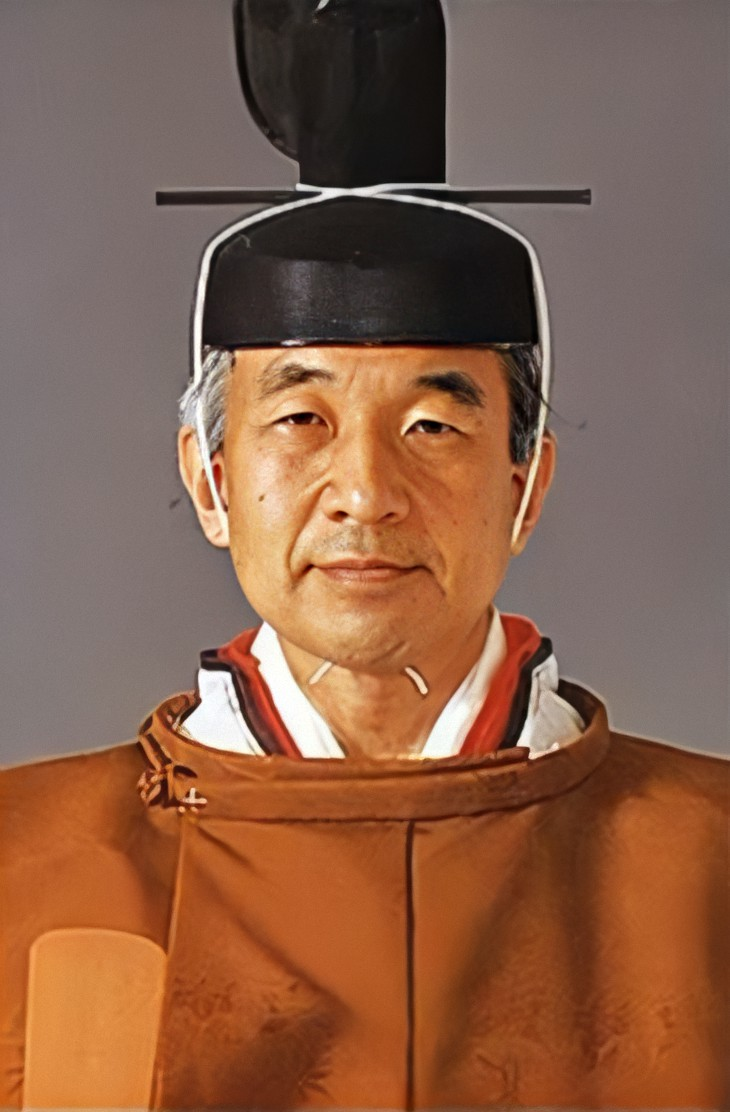 Emperor Akihito wore the sokutai at the Ceremony of the Enthronement on November, 1990.